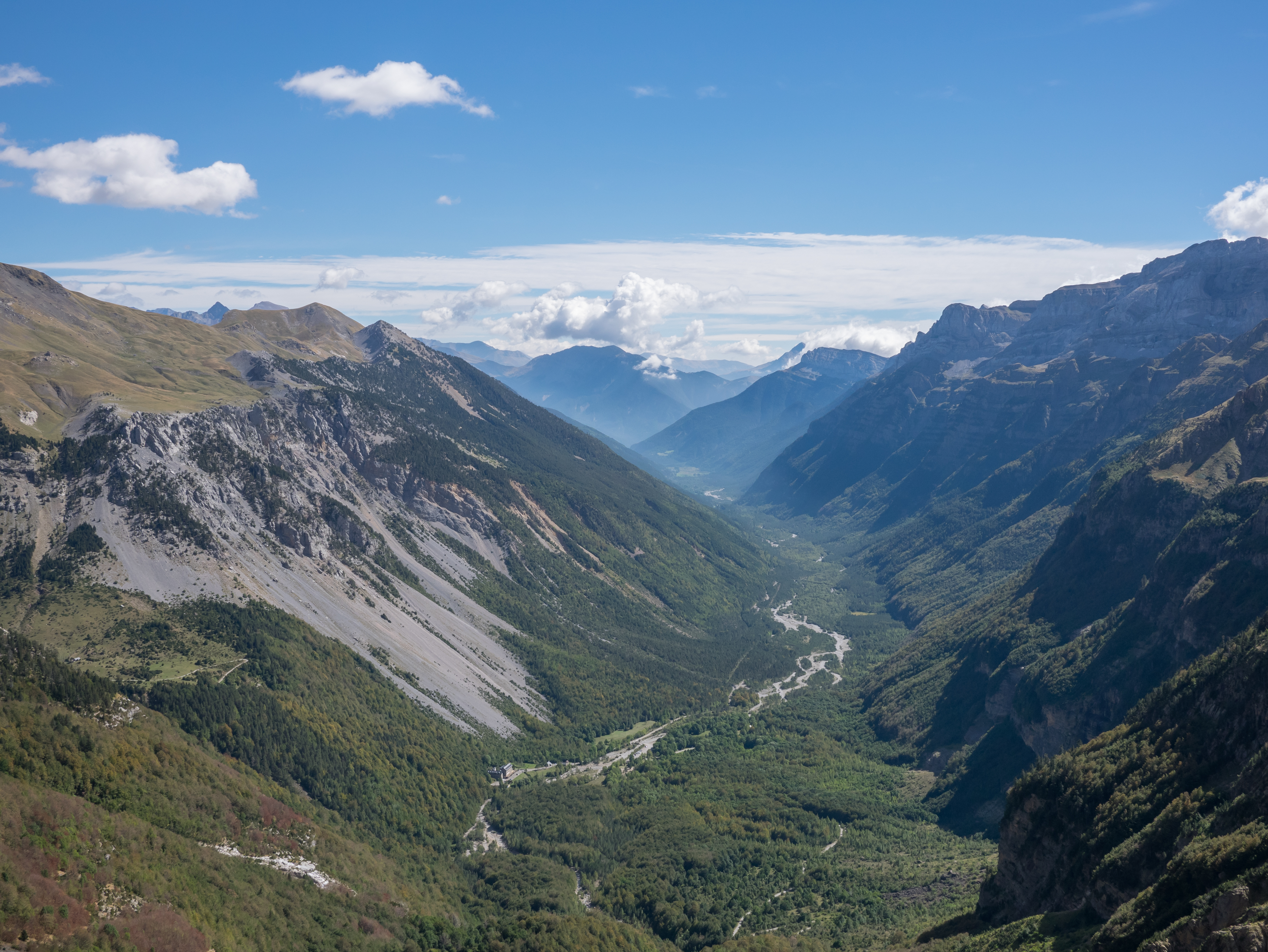 Pineta valley viewed from the trail to Balcón de Pineta. Sobrarbe, Aragón, Spain